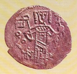 Coin depicting emperor of Trebizond, John II.